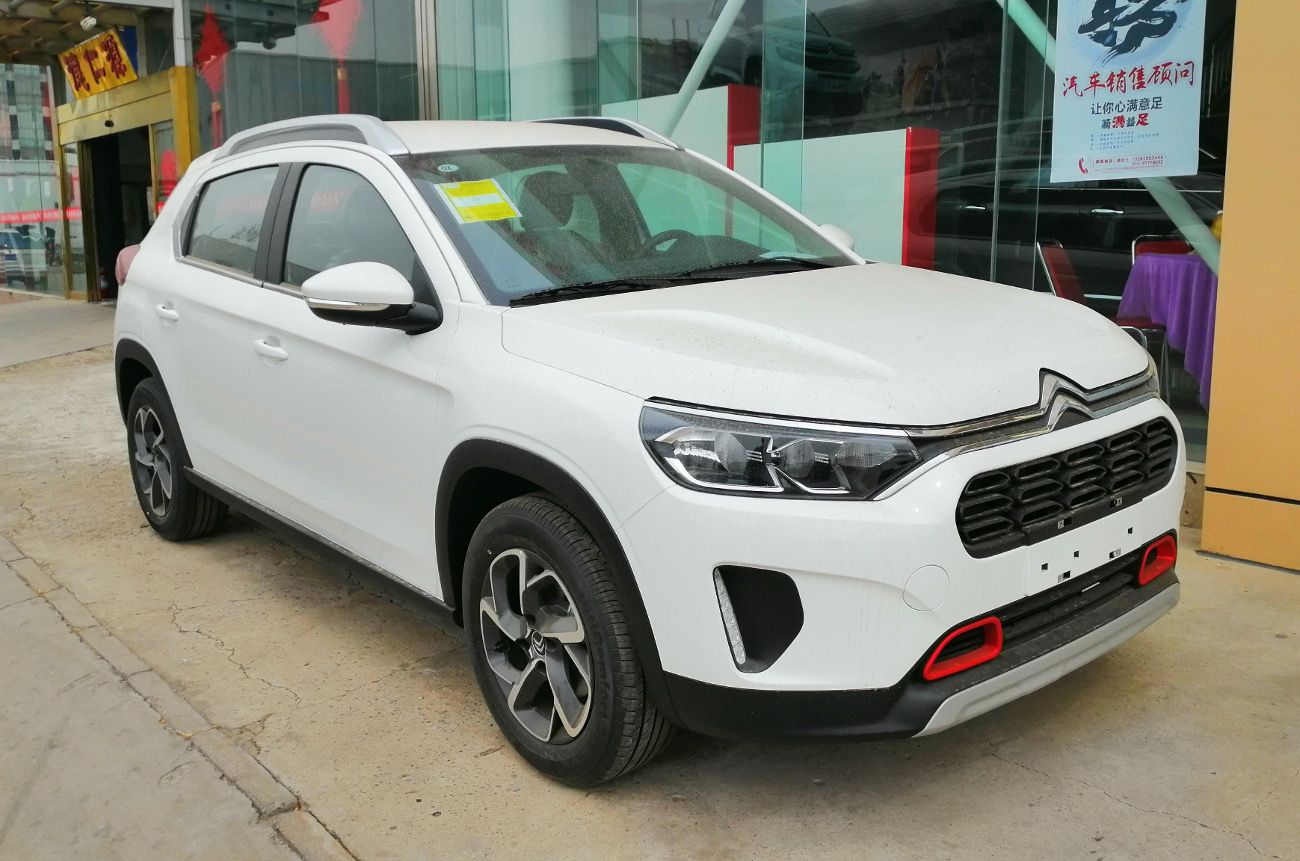 Citroën C3-XR facelift photographed in Beijing, China.